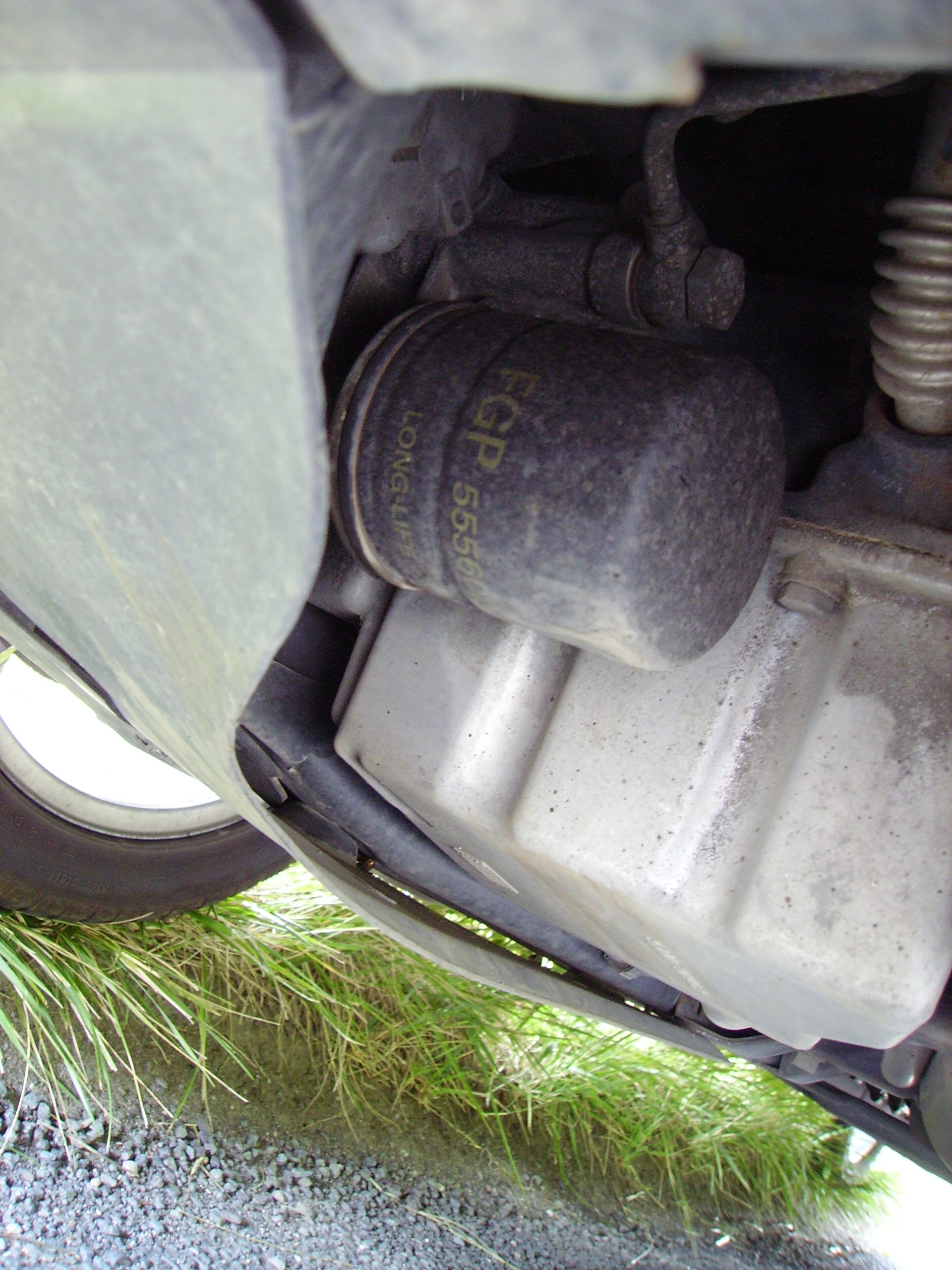 Oil filter on underside of engine, from Saab 9-5 (YS3E, 2001–2005) SportCombi